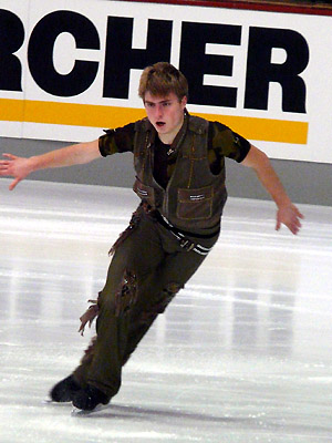 Mikhail Magerovski during his free skate at the 2007 Nebelhorn Trophy.